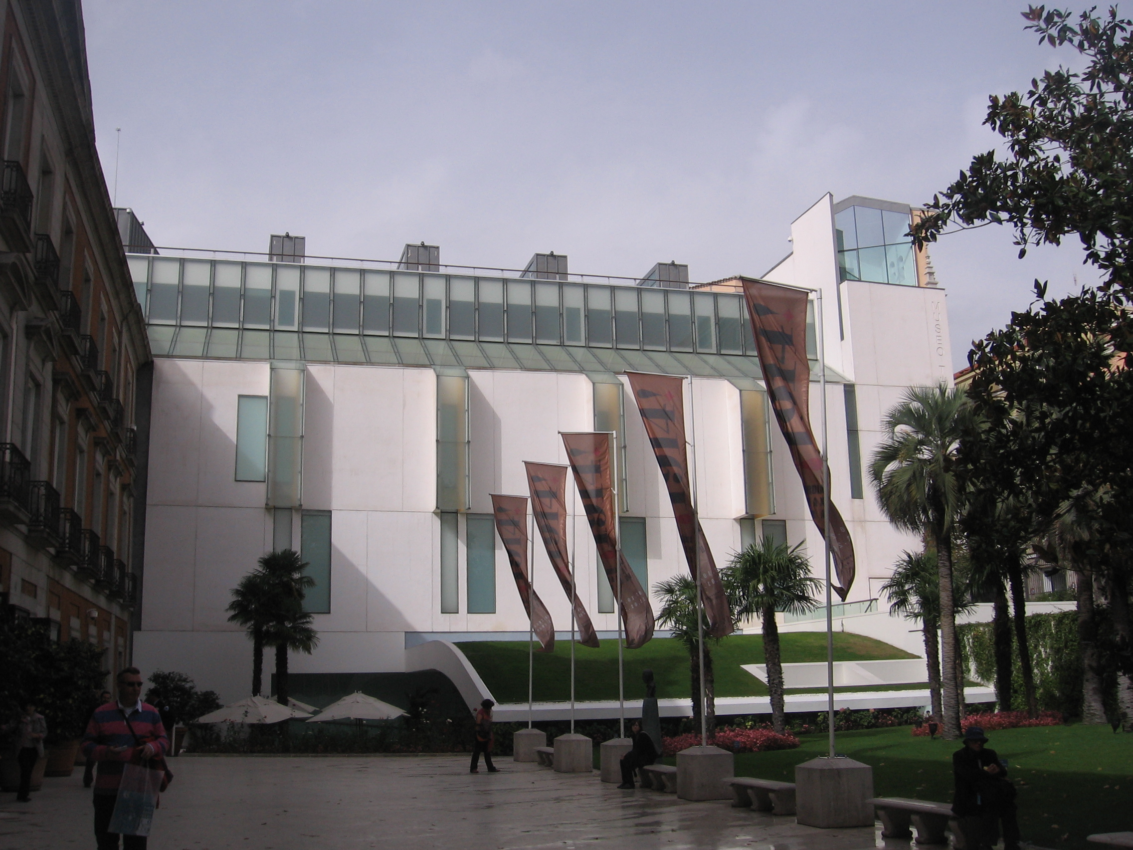 Madrid Thyssen-Bornemisza Museum.